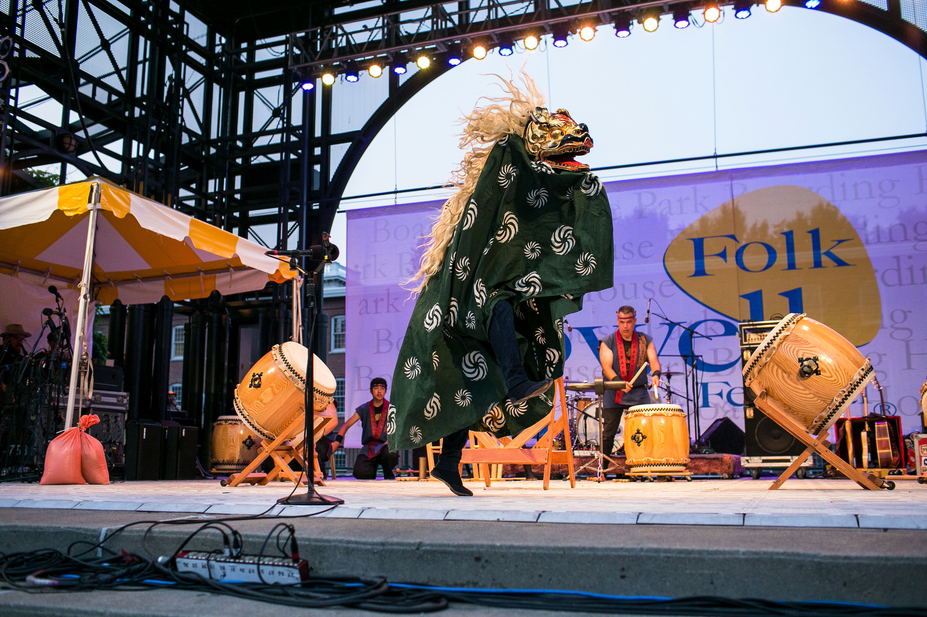 A performer, on stage, is dressed in a lion costume, with one foot elevated and the other planted to spring upward. The lion has a golden face with a wide, open mouth. It has a long mane of flaxen hair, and its body is green fabric with white concentric swirls. There are taiko drummers in the background. Grandmaster Seiichi Tanaka and the San Francisco Taiko Dojo (2014). Seiichi Tanaka is a Grand Master of the ancient Japanese form of ritual drumming known as taiko. This art-form involves physically demanding choreographic movement in tandem with percussive sound. Tanaka arrived to the U.S. in 1967, and he founded the first taiko dojo in North America in 1968. Practicing taiko for nearly five decades, Tanaka's first student at the dojo, Nosuke Akiyama, is also a master lion dancer and led the group's performance in the Lowell Folk Festival (2014). Keywords: Lowell; National; Historical; Park; Folk; Festival; Lion; Dance; Taiko; Drum; Seiichi; Tanaka; San Francisco; Dojo